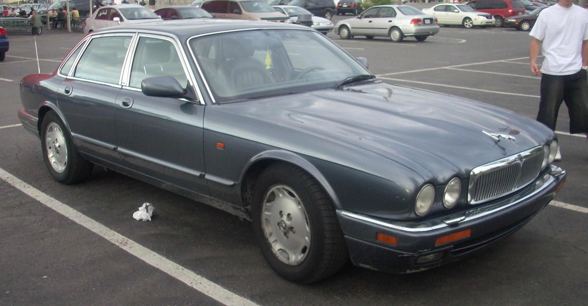 1996 Jaguar XJ photographed in Montreal, Quebec, Canada at Gibeau Orange Julep.